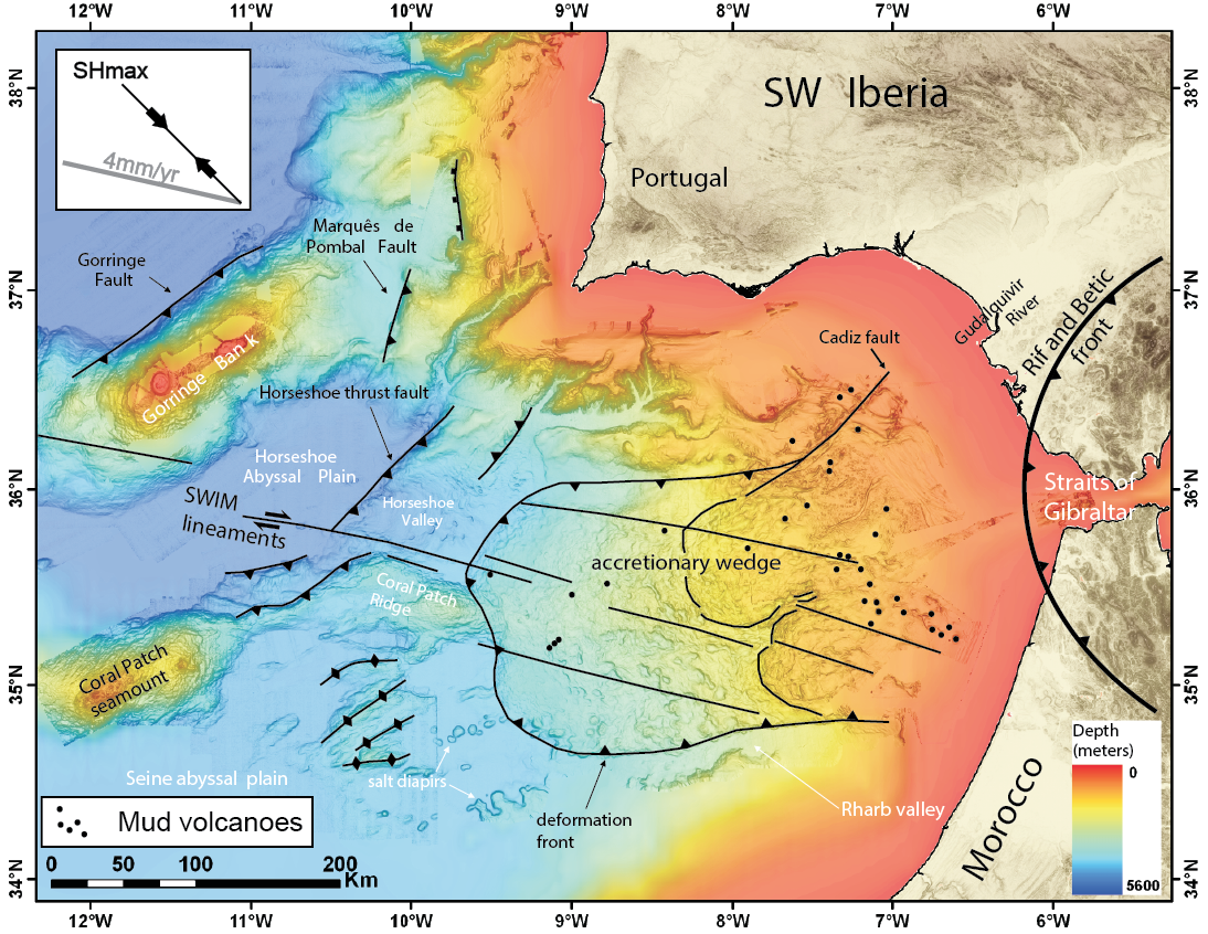 Tectonic map of the Gulf of Cadiz region showing relief (bathymetry and topography) and major mapped faults